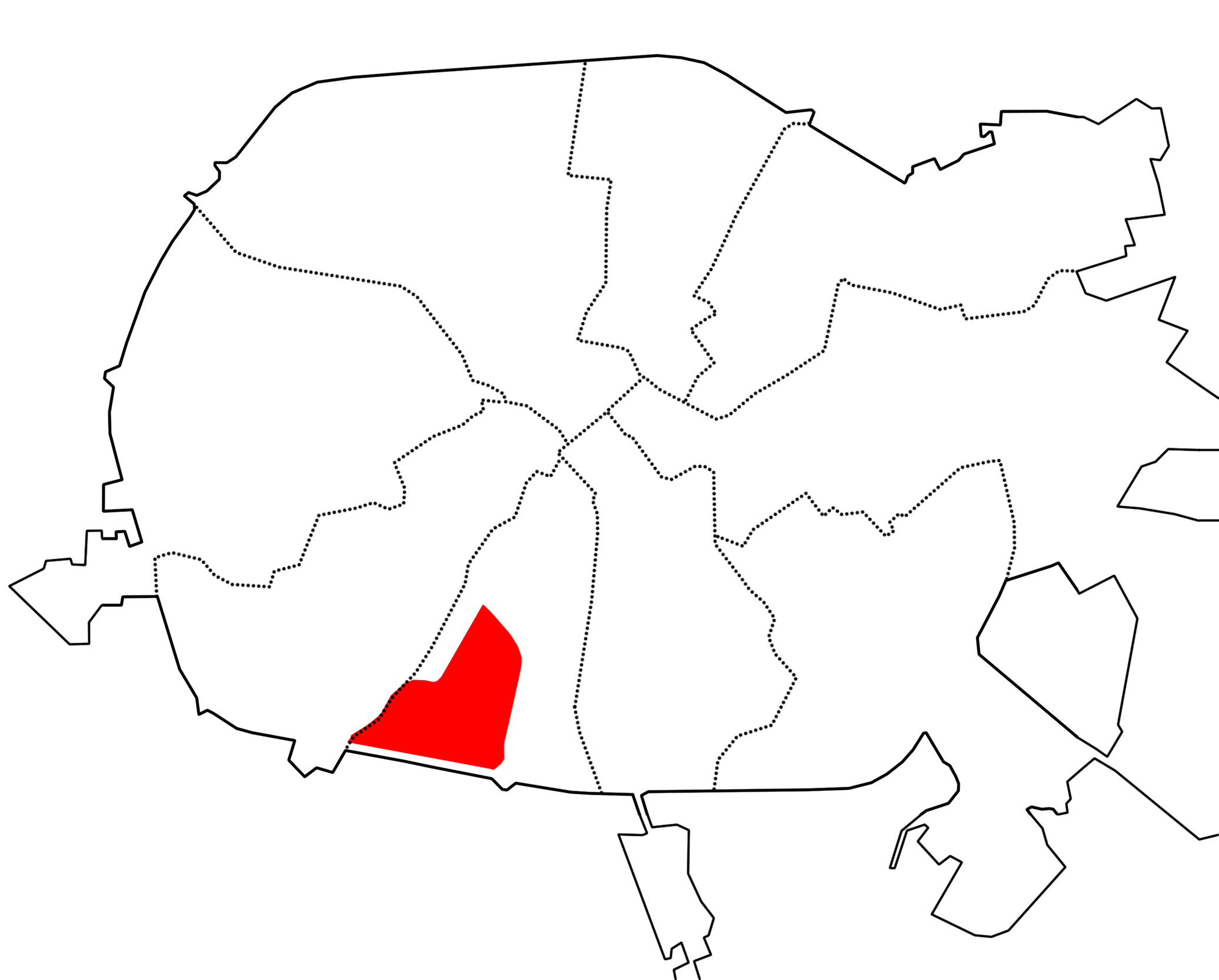 Kurasoŭščyna (Kurasovschina) microdistrict in Minsk, Belarus